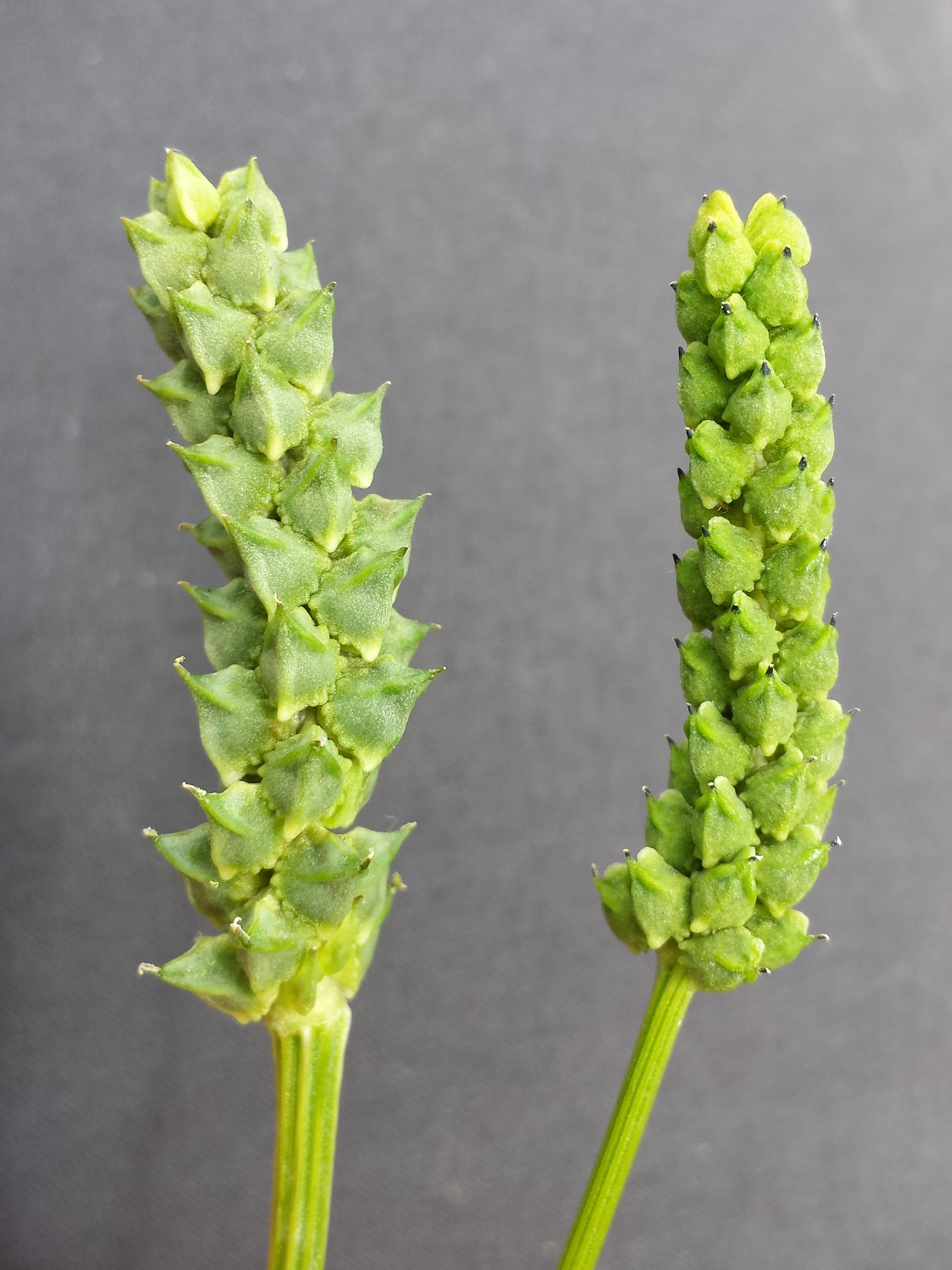 Fruits Taxonym: Adonis aestivalis (on the left) and Adonis flammea (on the right) ss Fischer et al. EfÖLS 2008 ISBN 978-3-85474-187-9 Location: Steinbacher Heide, Leiser Berge, district Korneuburg, Lower Austria - ca. 450 m a.s.l. Habitat: stony field